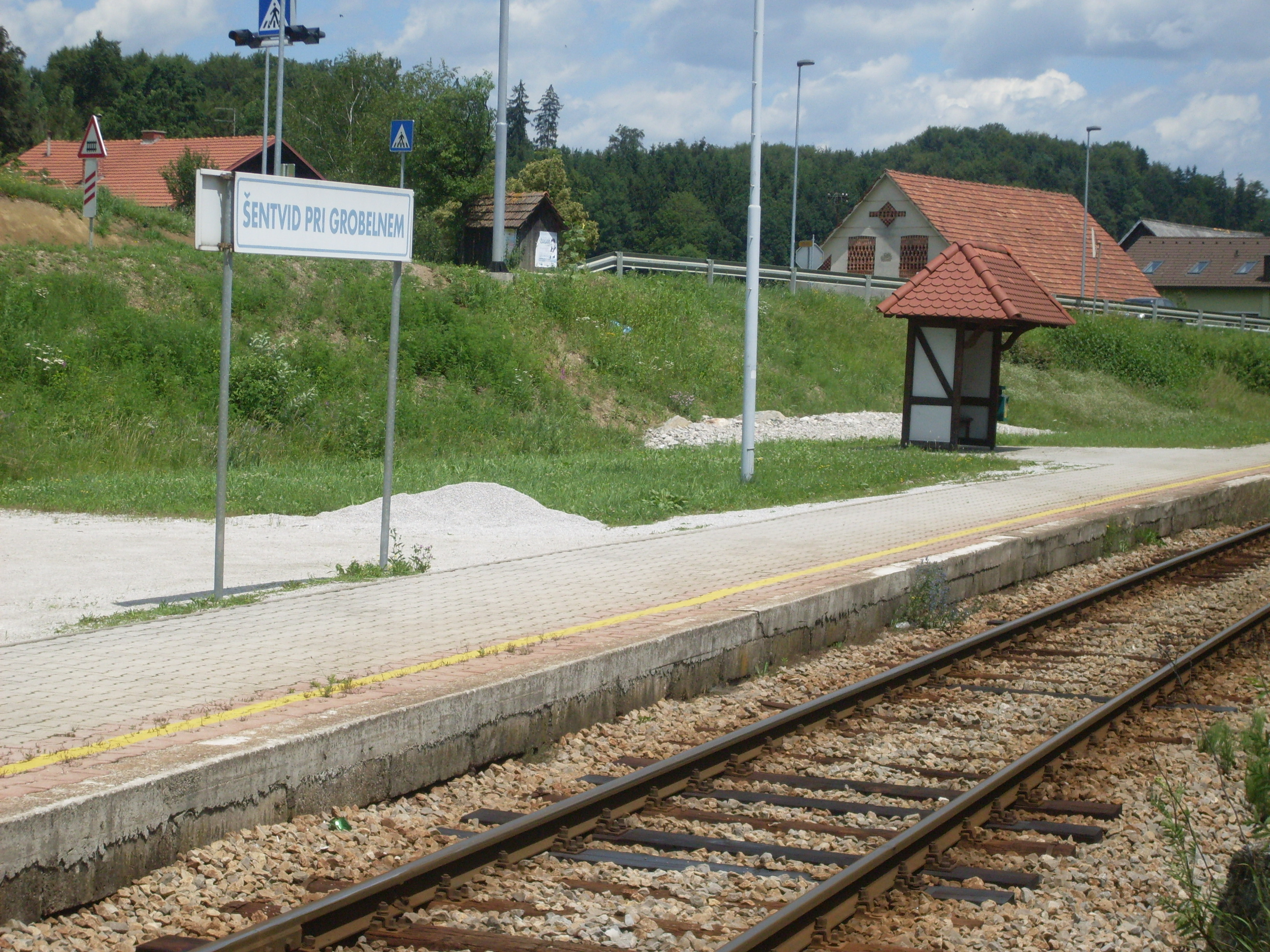 Railway halt in Šentvid pri GrobelnemSlovenščina: Železniško postajališče Šentvid pri Grobelnem